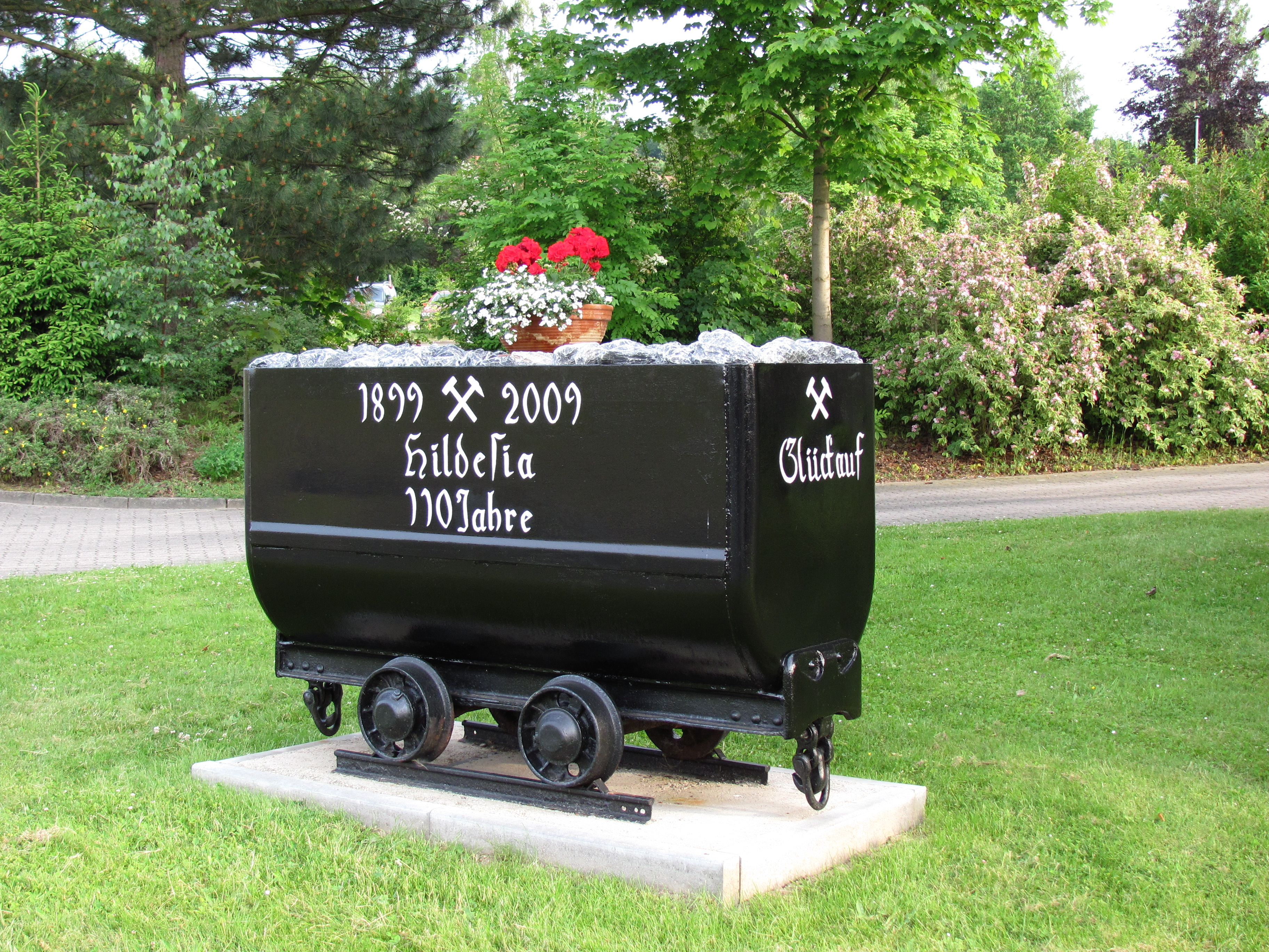 Memorial of the former mine, Diekholzen, Germany.